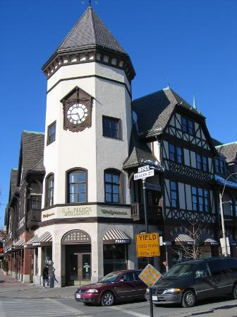 Author: Greg Kullberg. Taken February 27, 2005